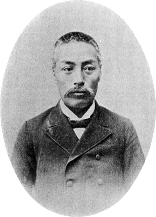 Mr. Gorō Oka, inspector of the Department of Education.